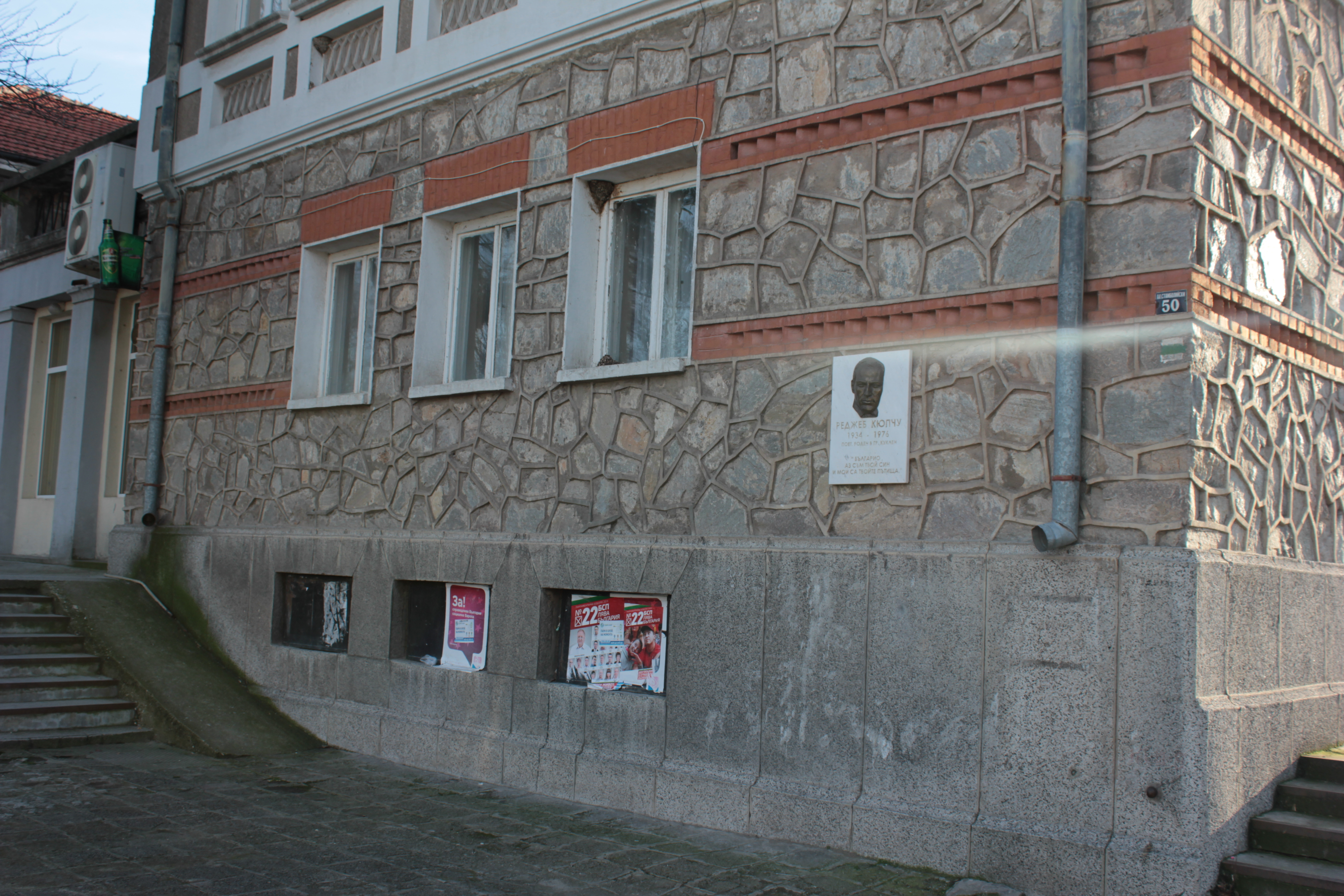 A memorial plate of Recep Küpçü in his native village Kuklen Bulgaria